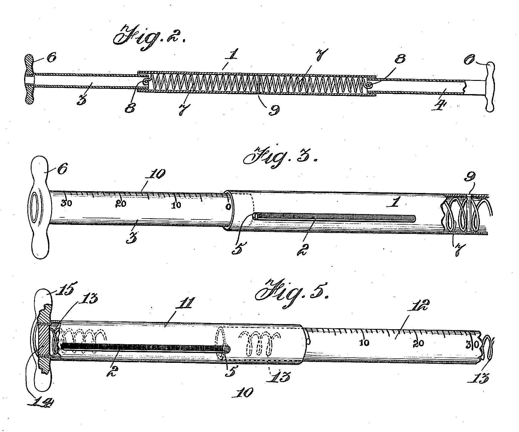 It is said that this device inspired the creator of the bullworker device. From